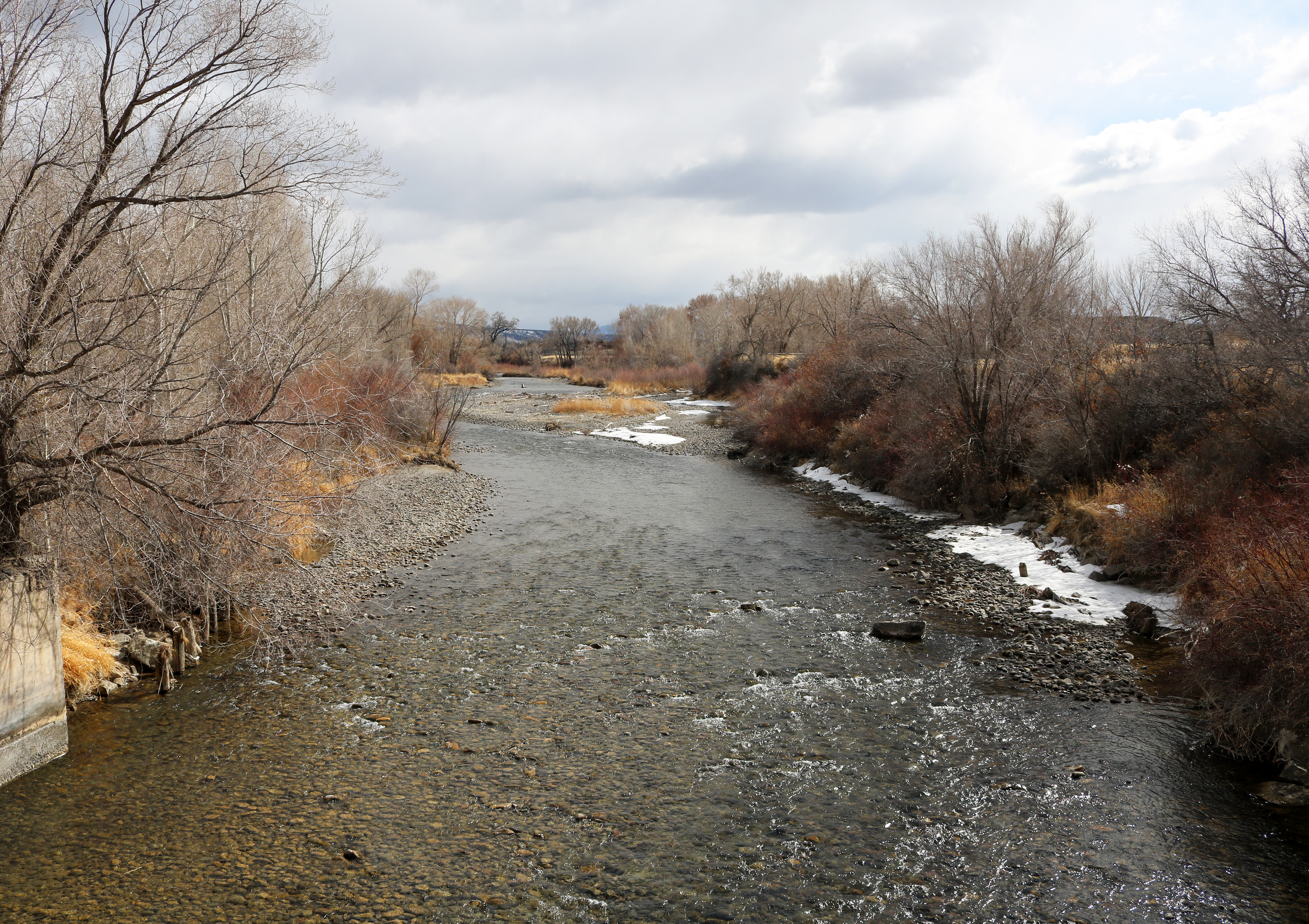 The Uncompahgre River in winter. The view is from a bridge over Trout Road in southern Montrose County, Colorado.